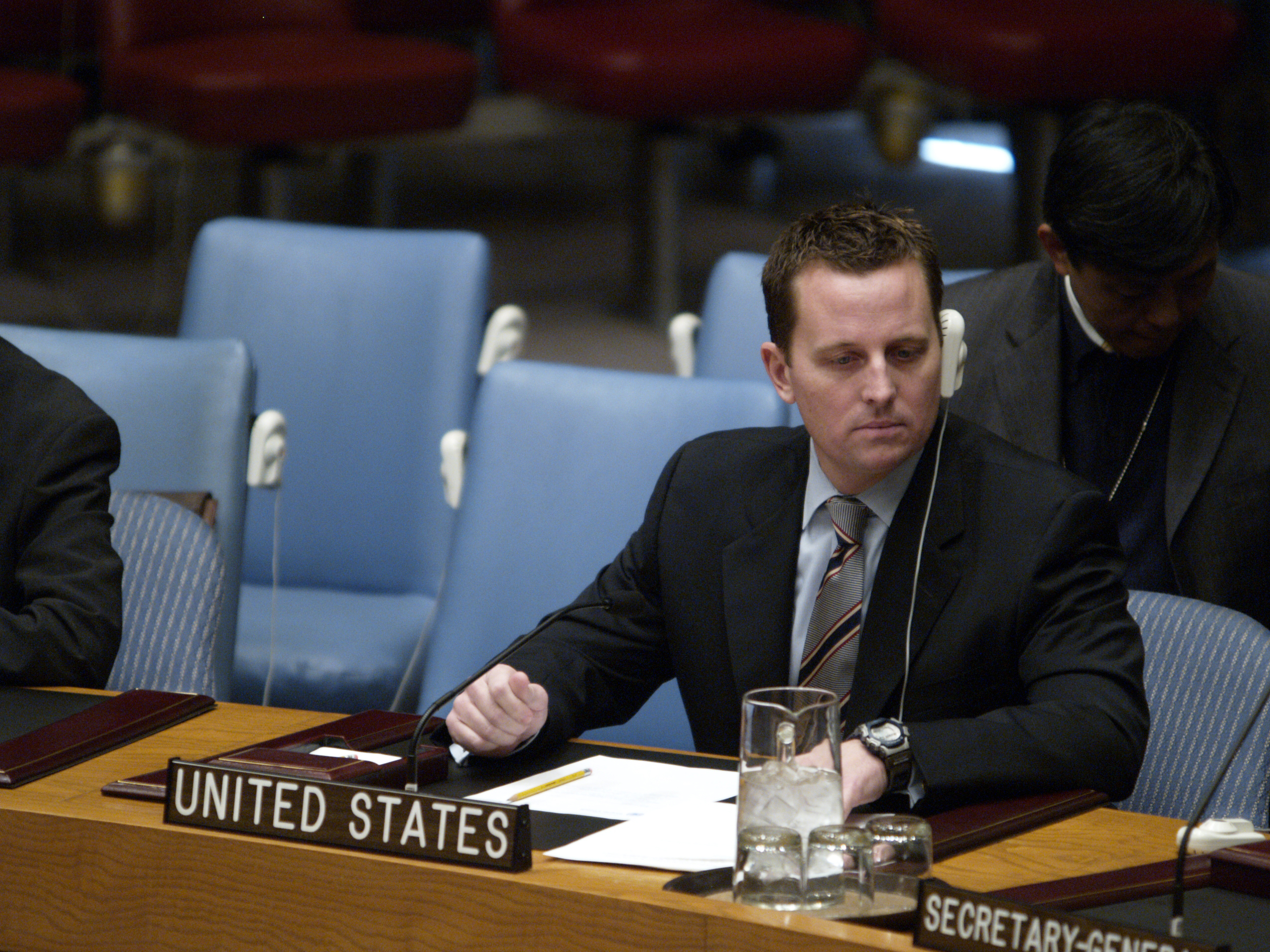 U.S. spokesman to the UN Richard Grenell at a UN Security Council meeting.